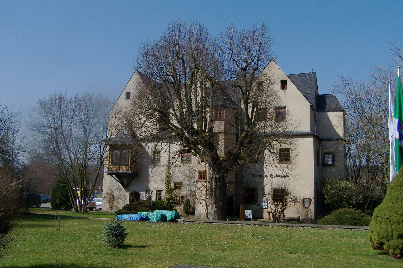 The castle Graues Schloss in Mihla